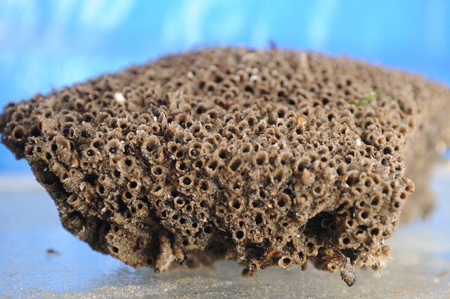 A colony of sandcastle worm (Phragmatopoma californica) tubes in the laboratory of Russell Stewart, University of Utah.